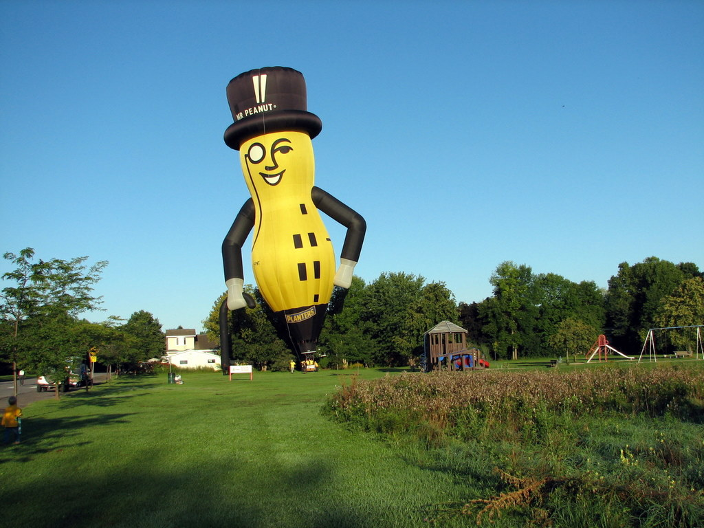 Mre Peanut hot air balloon.